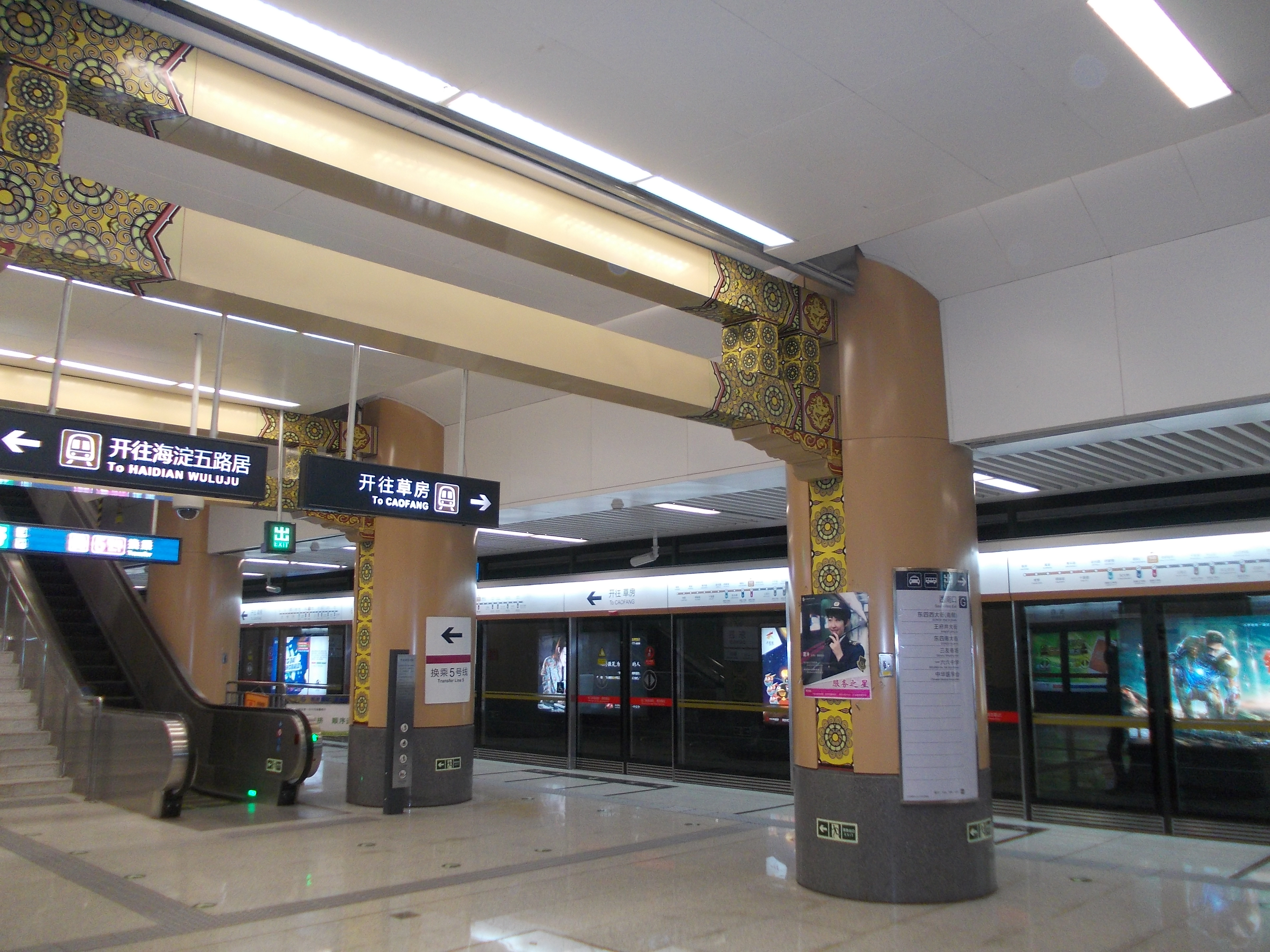 Beijing Subway - Dongsi - Line 6 Platform